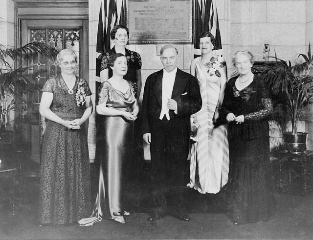 Unveiling of a plaque commemorating the five Alberta women whose efforts resulted in the Persons Case, which established the rights of women to hold public office in Canada. (Front row, L-R): Mrs. Muir Edwards, daughter-in-law of Henrietta Muir Edwards; Mrs. J.C. Kenwood, daughter of Judge Emily Murphy; Rt. Hon. Mackenzie King; Mrs. Nellie McClung. (Rear row, L-R): Senators Iva Campbell Fallis, Cairine Wilson